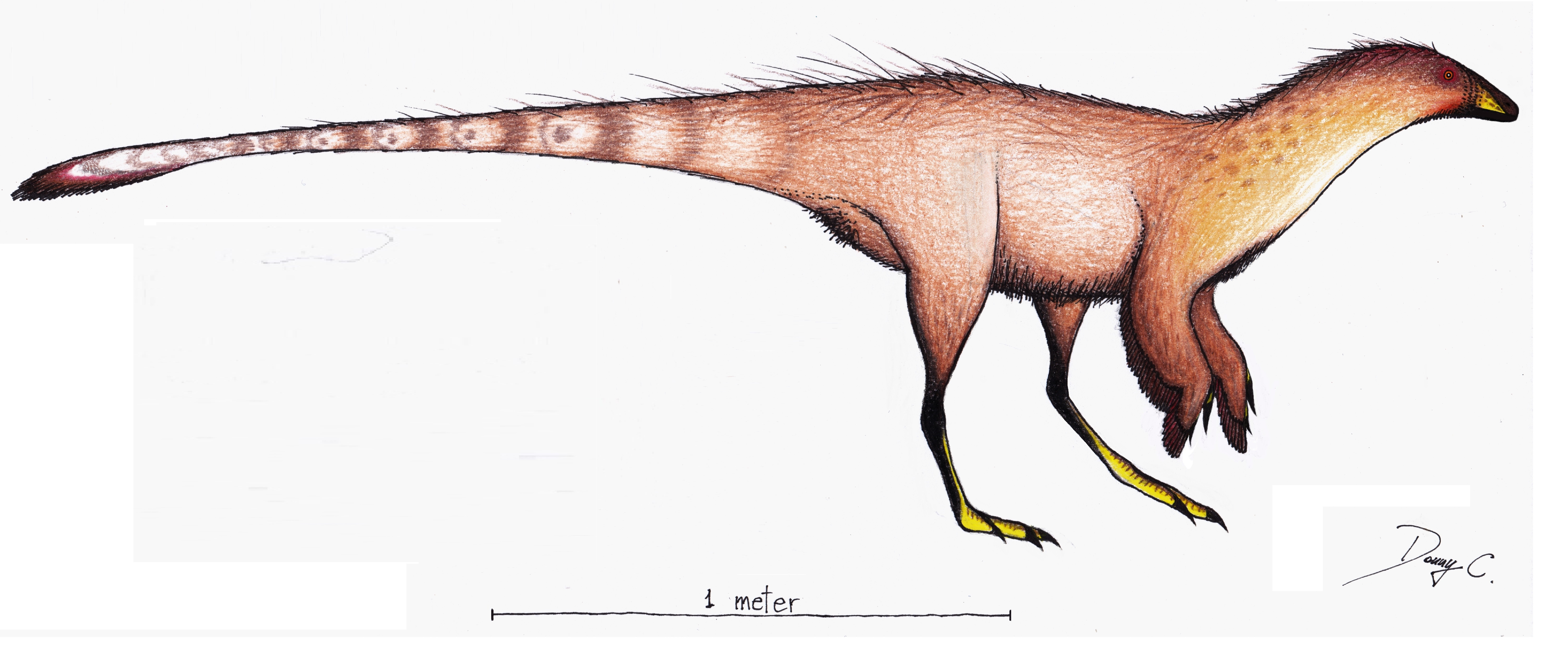 Life restoration